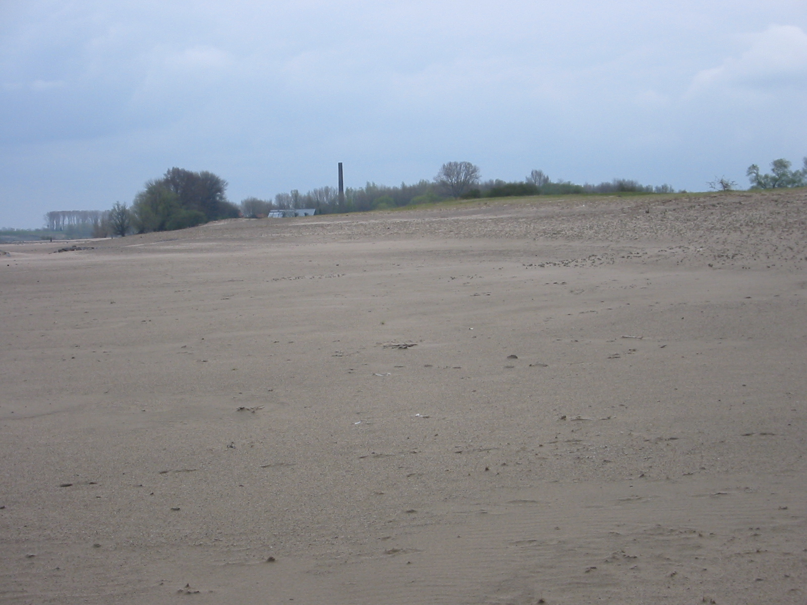 River dunes at Millingen.